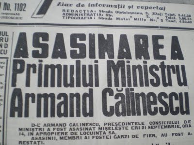 Newspaper announcing the murder of Romanian Prime Minister Armand Calinescu.